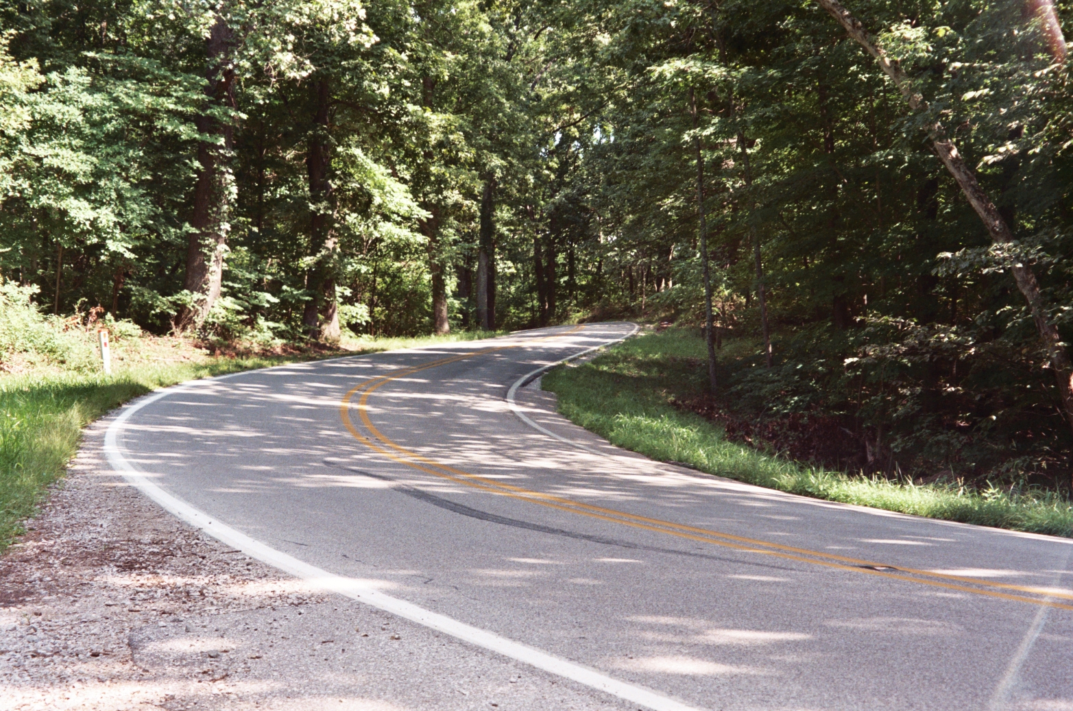 Eastbound photo of Indiana State Road 45 in Brown County, west of Trevlac.